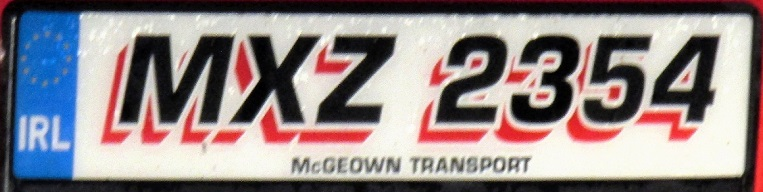 Northern Ireland license plate (non-standard), XZ = Armagh County